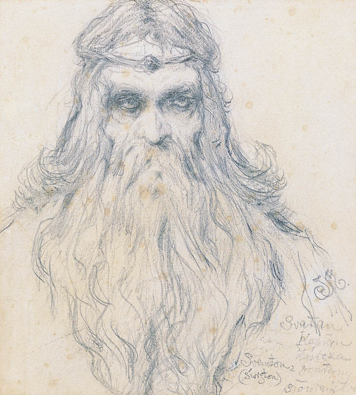 "Priest of Fire" - Jan Matejko, Polish painting masterpiece c. 1870, pencil on paper, 17.5 x 15.8 cm.